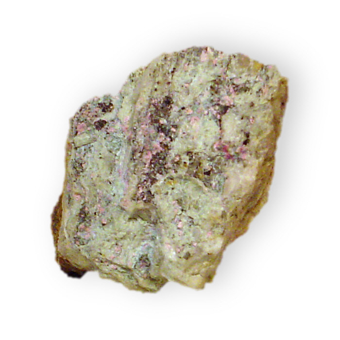 These mineral images are free to use how you wish.